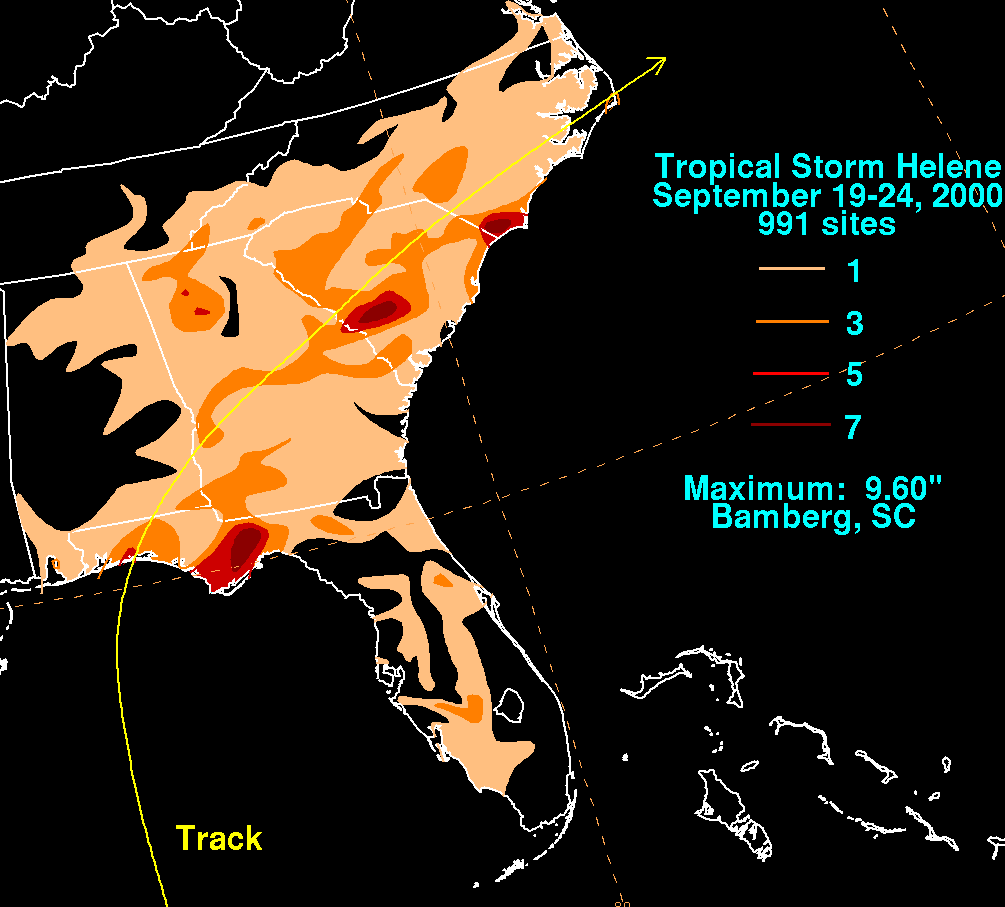 Rainfall produced by Tropical Storm Helene during September 2000.